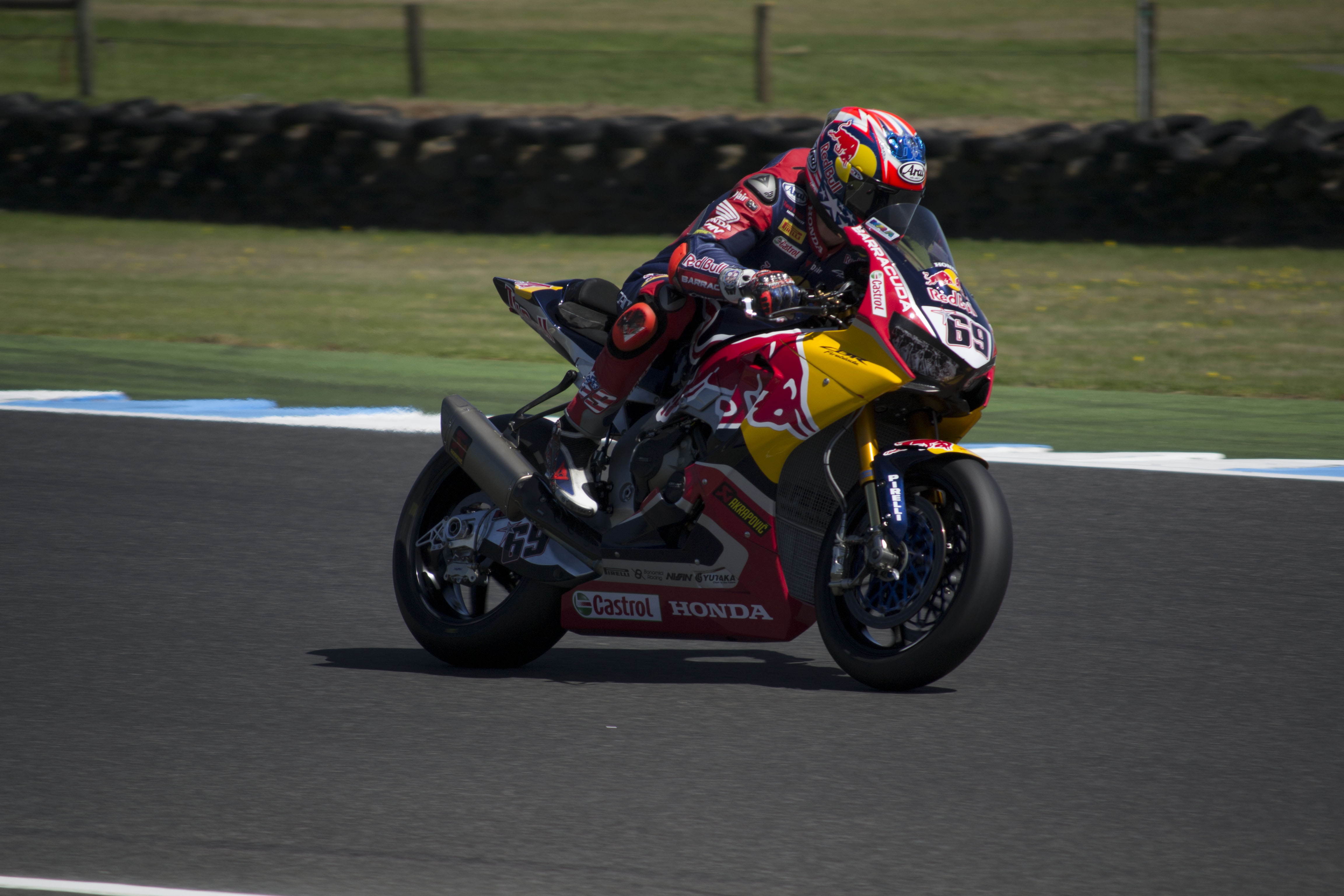 Nicky Hayden on track during Superpole 2 at the Australian round of the 2017 World Superbike Championship